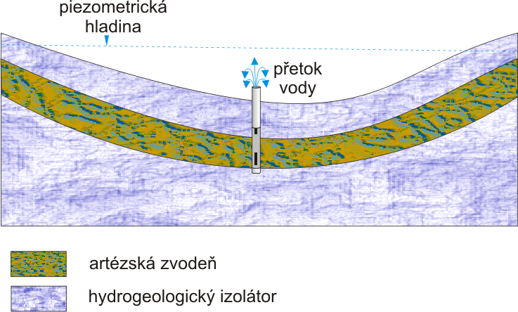 Artesian aquifer